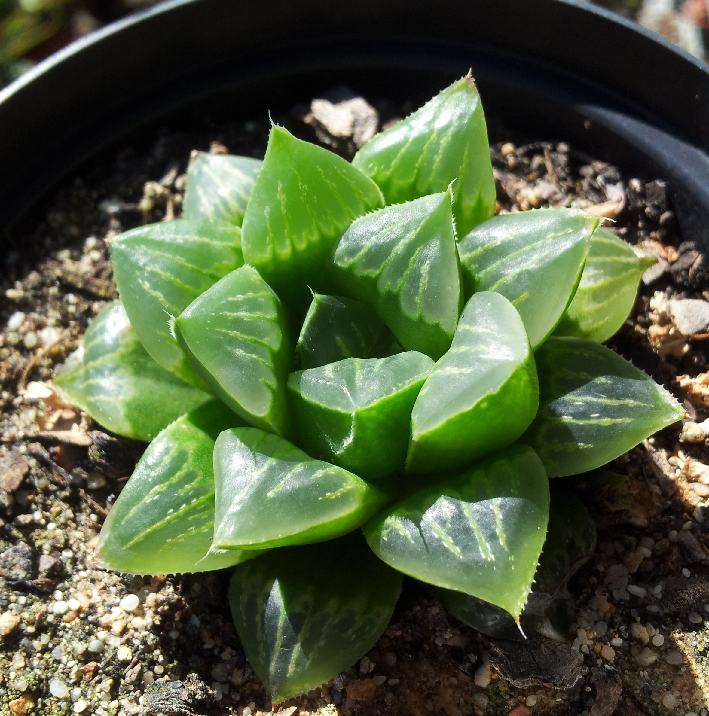 Haworthia retusa - Kirstenbosch